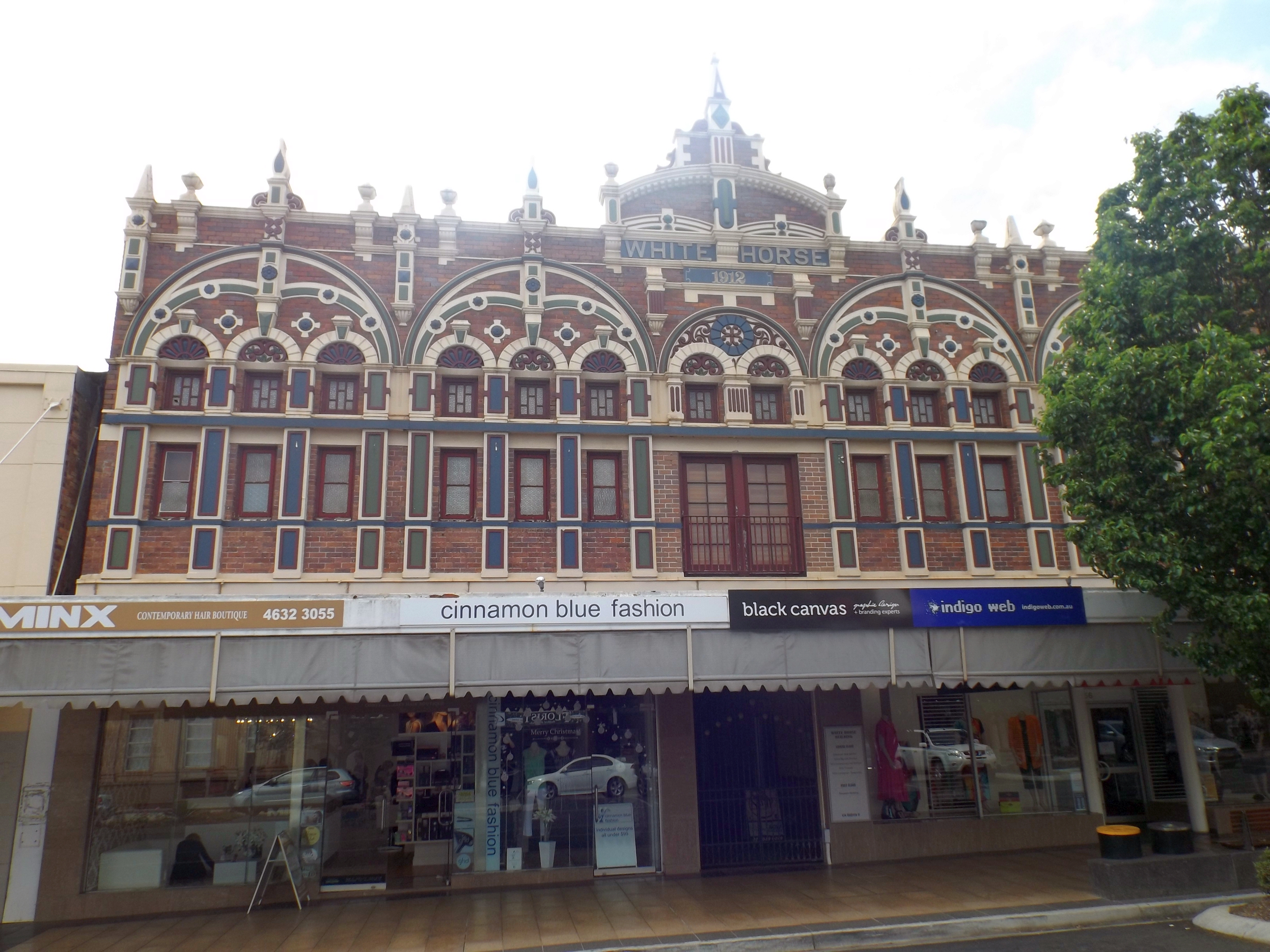 Photo of White Horse Hotel in Toowoomba City, Queensland, Australia.